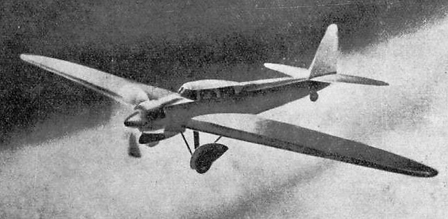 Mauboussin M.12 photo from Annuaire de L'Aéronautique 1931